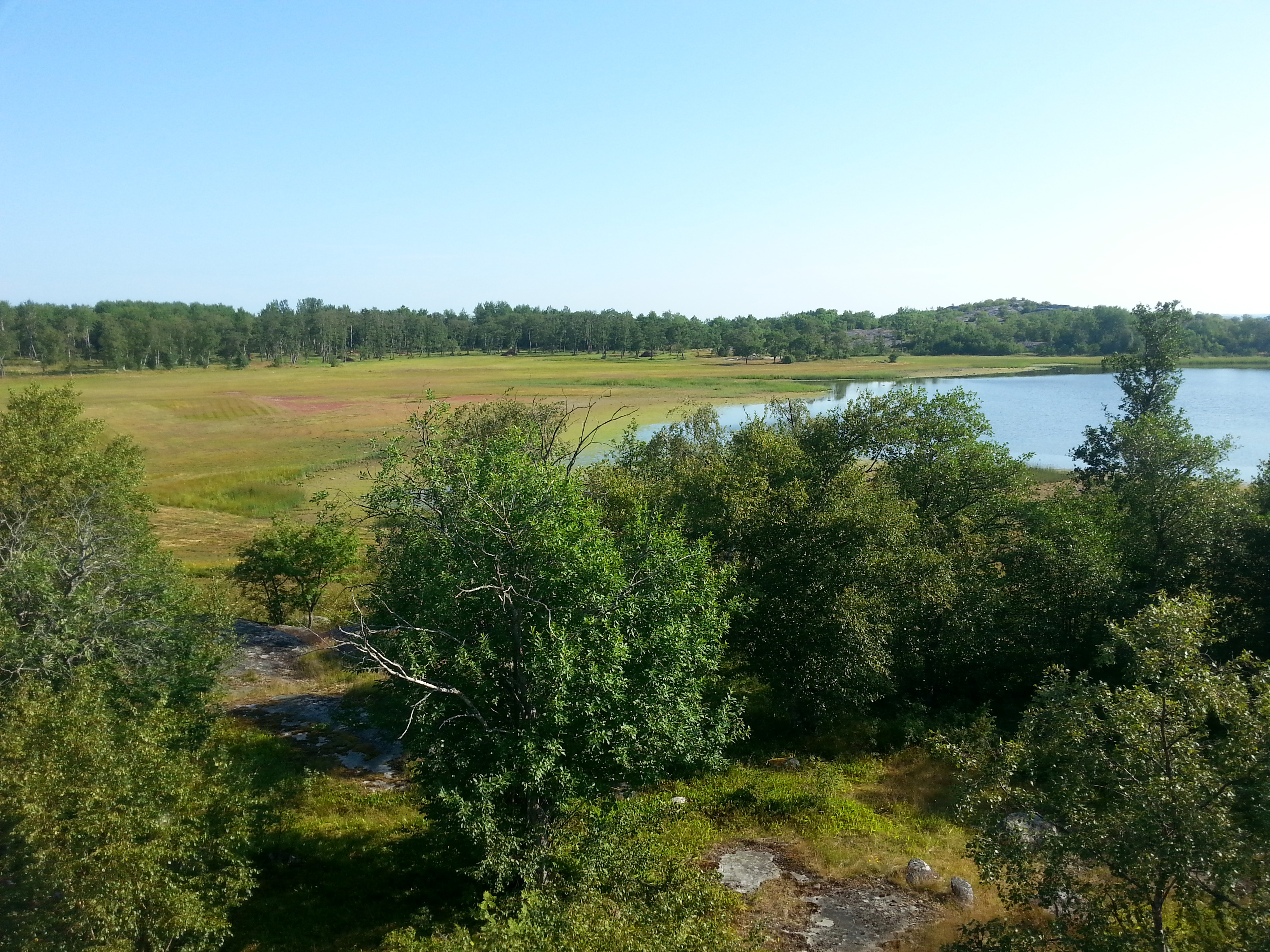 Jungfruskär islands, Pargas / Parainen, Finland